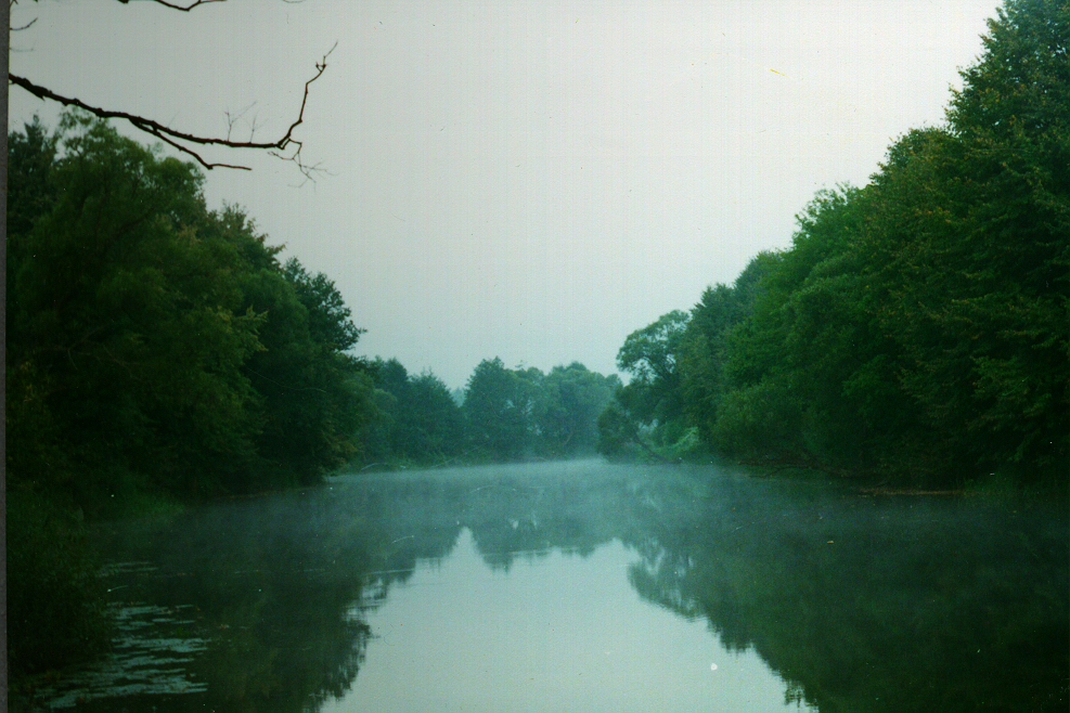 Sev river.Bryansk region. Russia. 1996